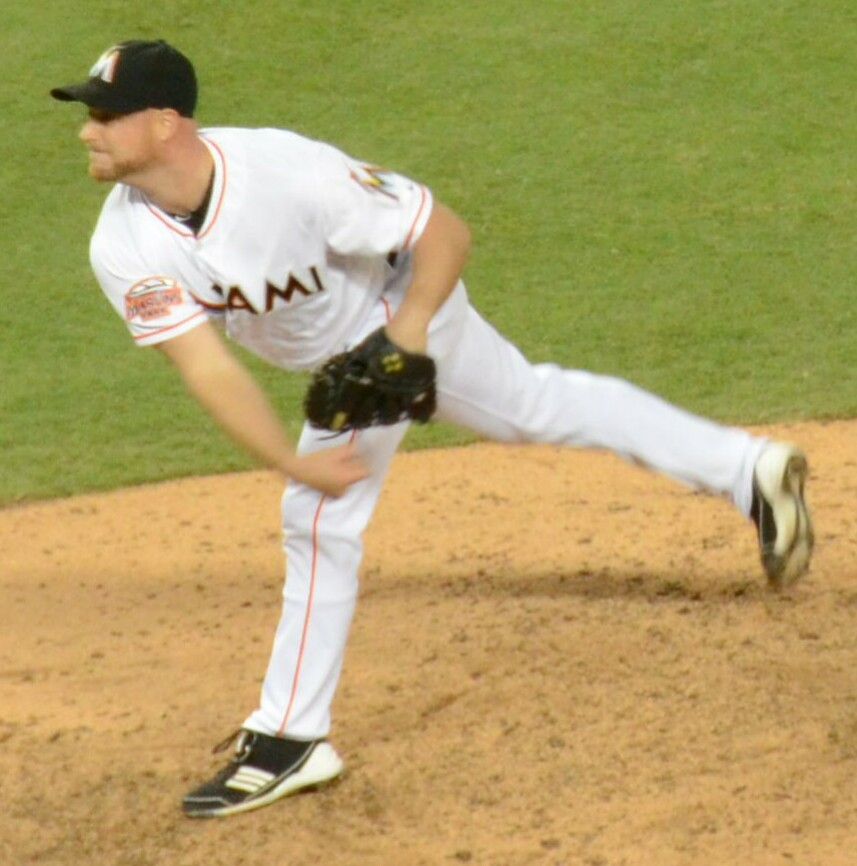 Chad Gaudin